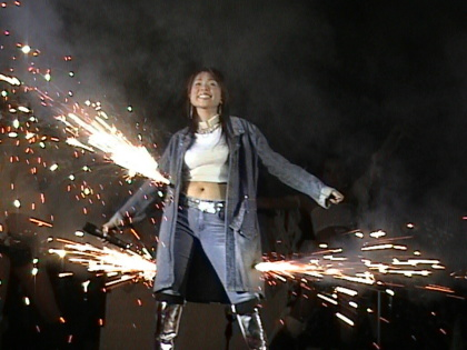 This is the snapshot of artist Nina in hr Nina Live @ San Pablo Concert. The cover art copyright is believed to belong to the user.